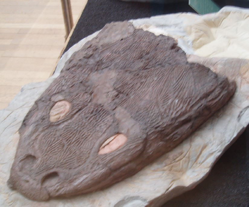 Skull of Metoposaurus, an early amphibian